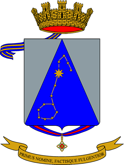 Coat of Arms of the 3° Special Operation Army Aviation Regiment “Aldebaran”; Italian Army.